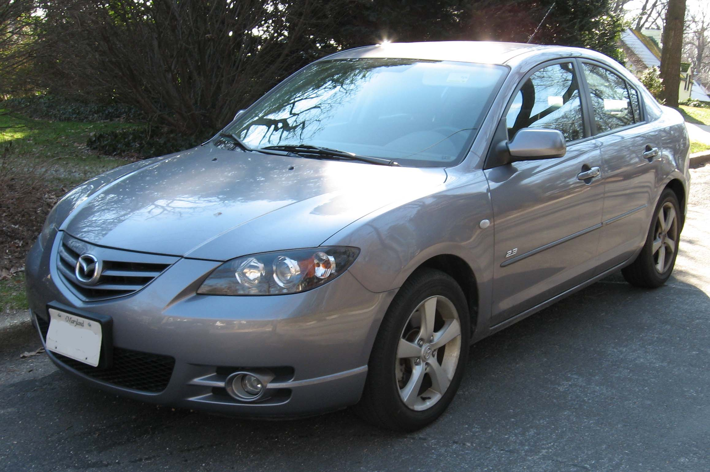 2004-2006 Mazda3 photographed in USA.